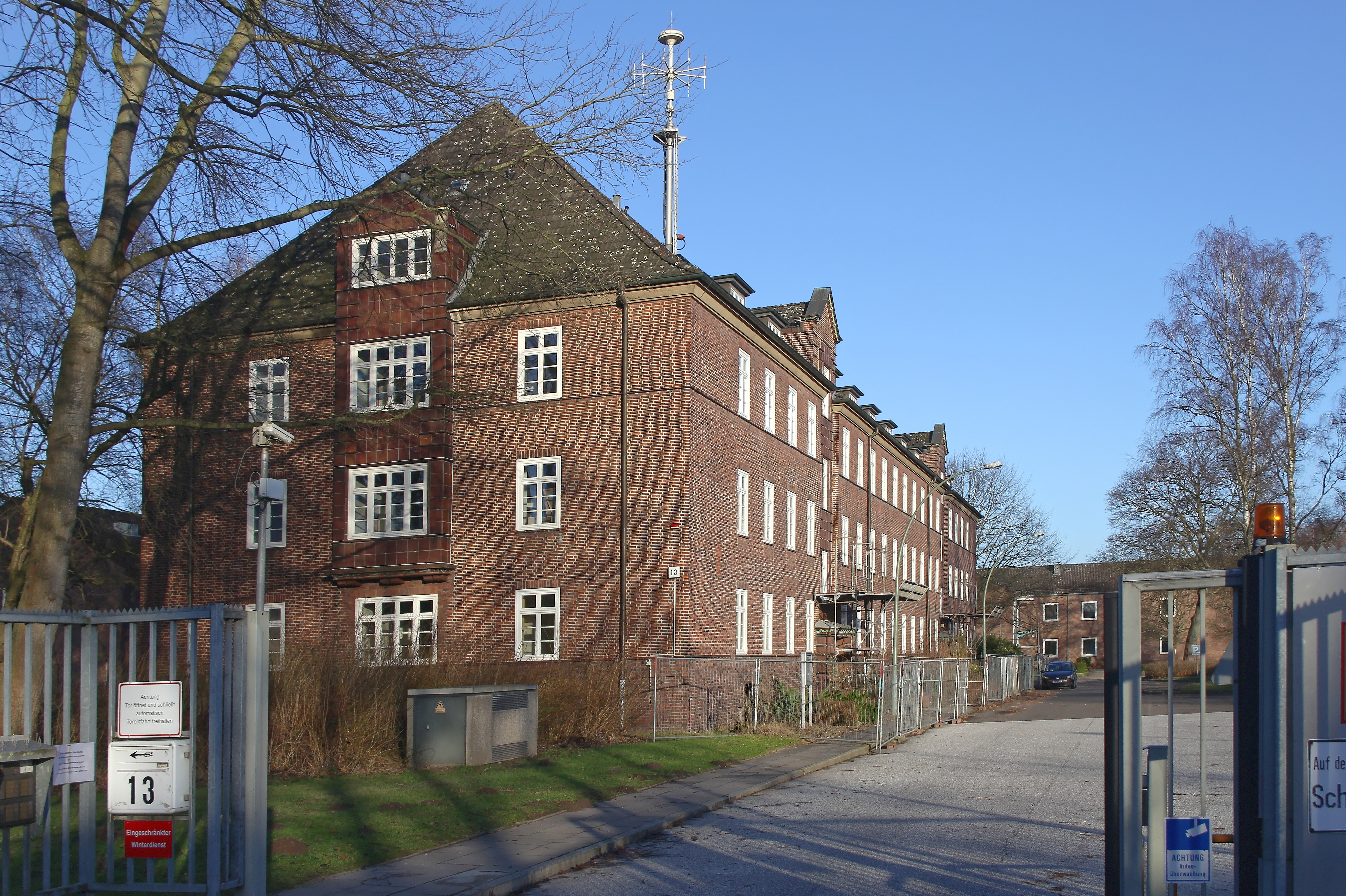 Hamburg-Rahlstedt, building of the former Graf-Goltz-Barracks, since 2002 used by the german customs